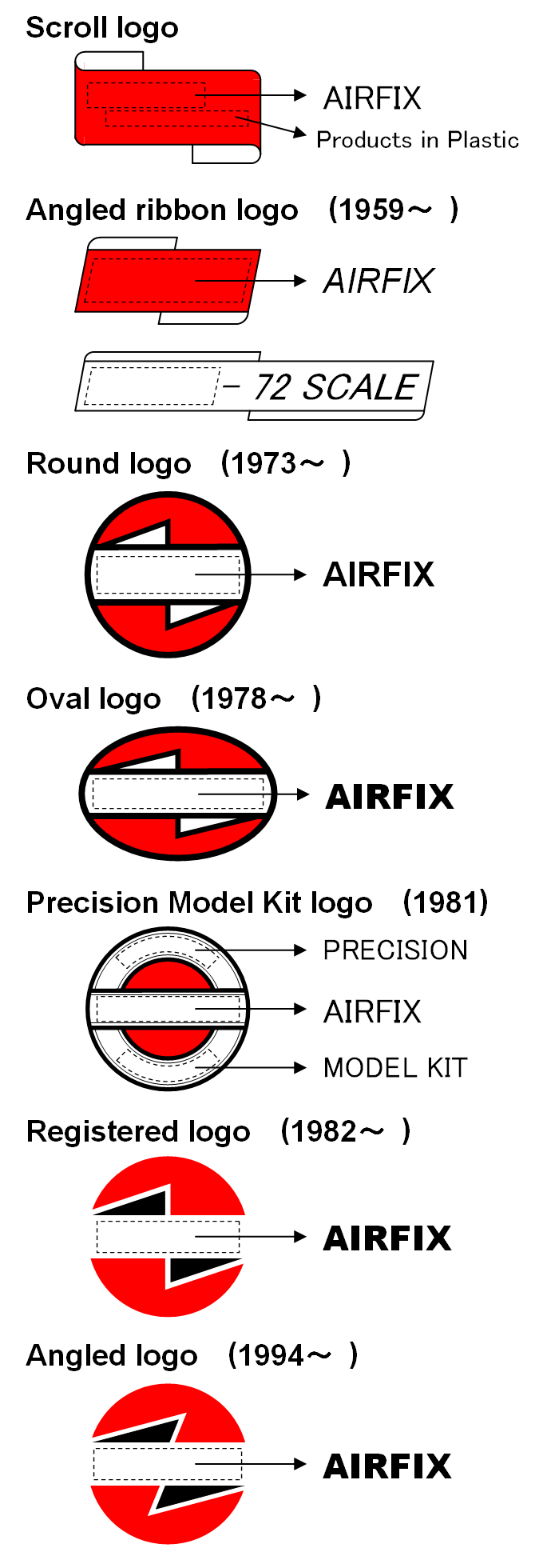 Variations of Airfix logo. These are not actual logos but only images.